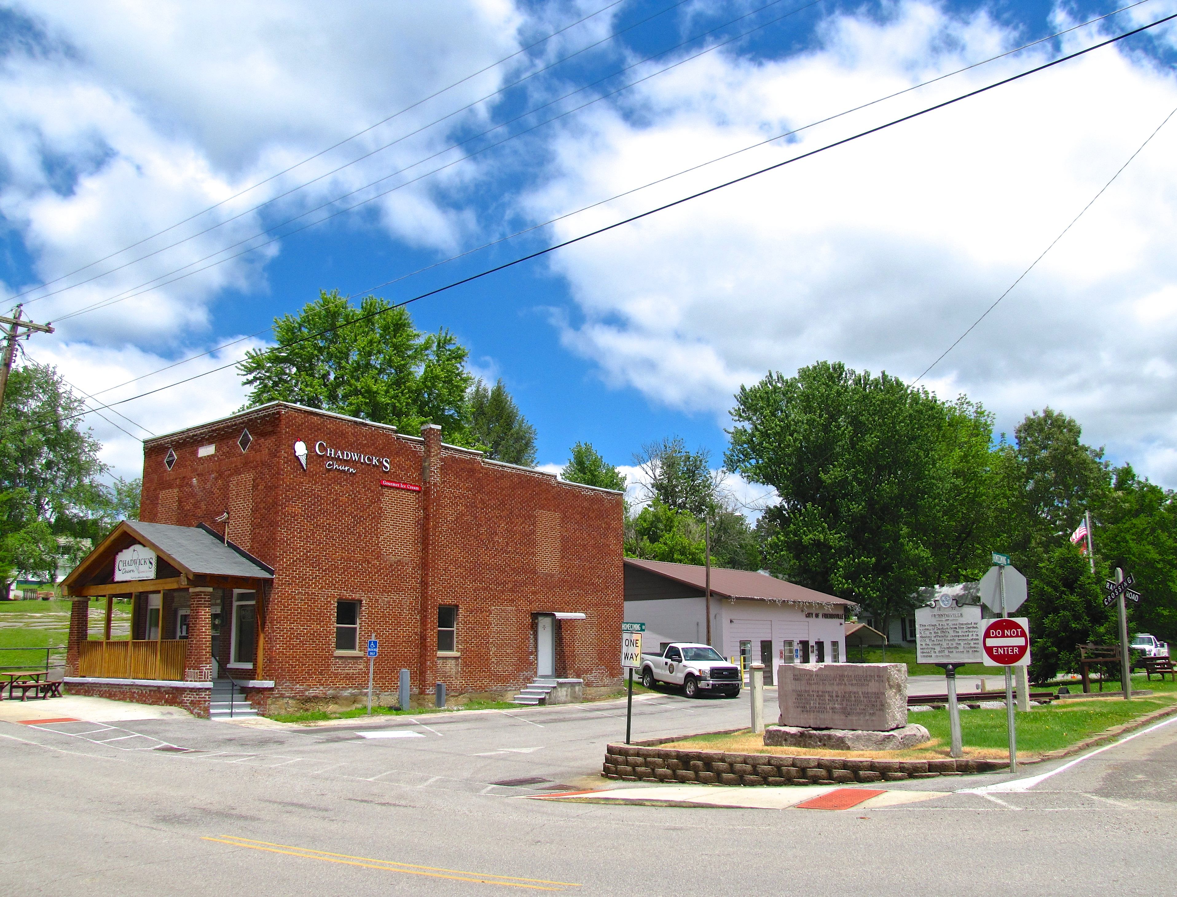 Buildings and historical markers at the intersection of College Avenue and Homecoming Circle in Friendsville, Tennessee, United States.